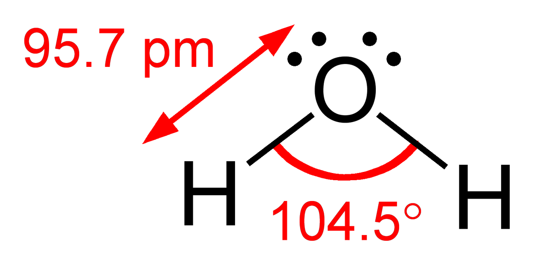 Structure and dimensions of the water molecule, H2O. Data from Greenwood, N. N.; Earnshaw, A. (1997) Chemistry of the Elements (2nd ed.), Oxford:Butterworth-Heinemann ISBN: 0-7506-3365-4. . Structure drawn in ChemDraw Ultra 11.0.